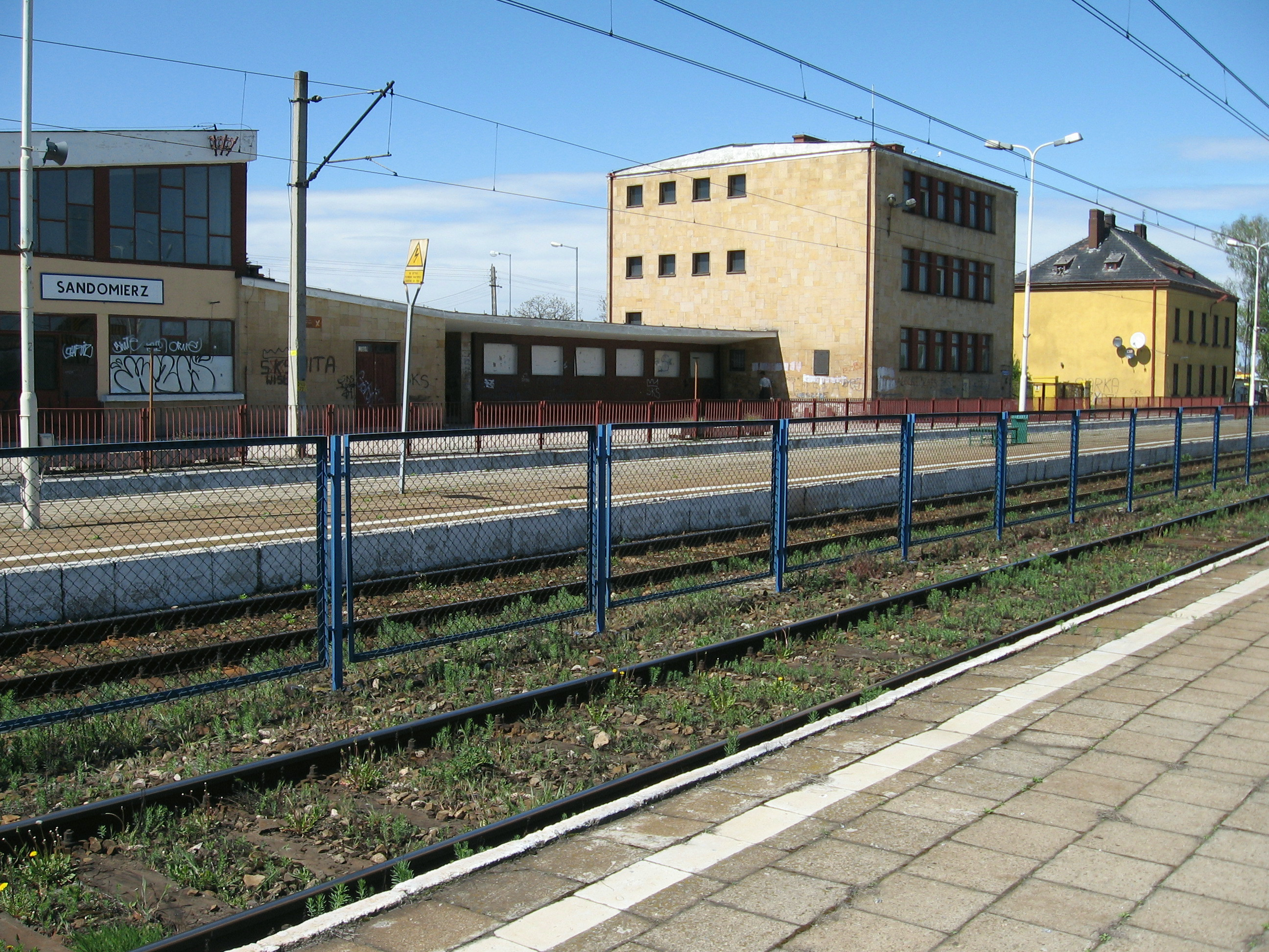 Railway station in Sandomierz, Poland